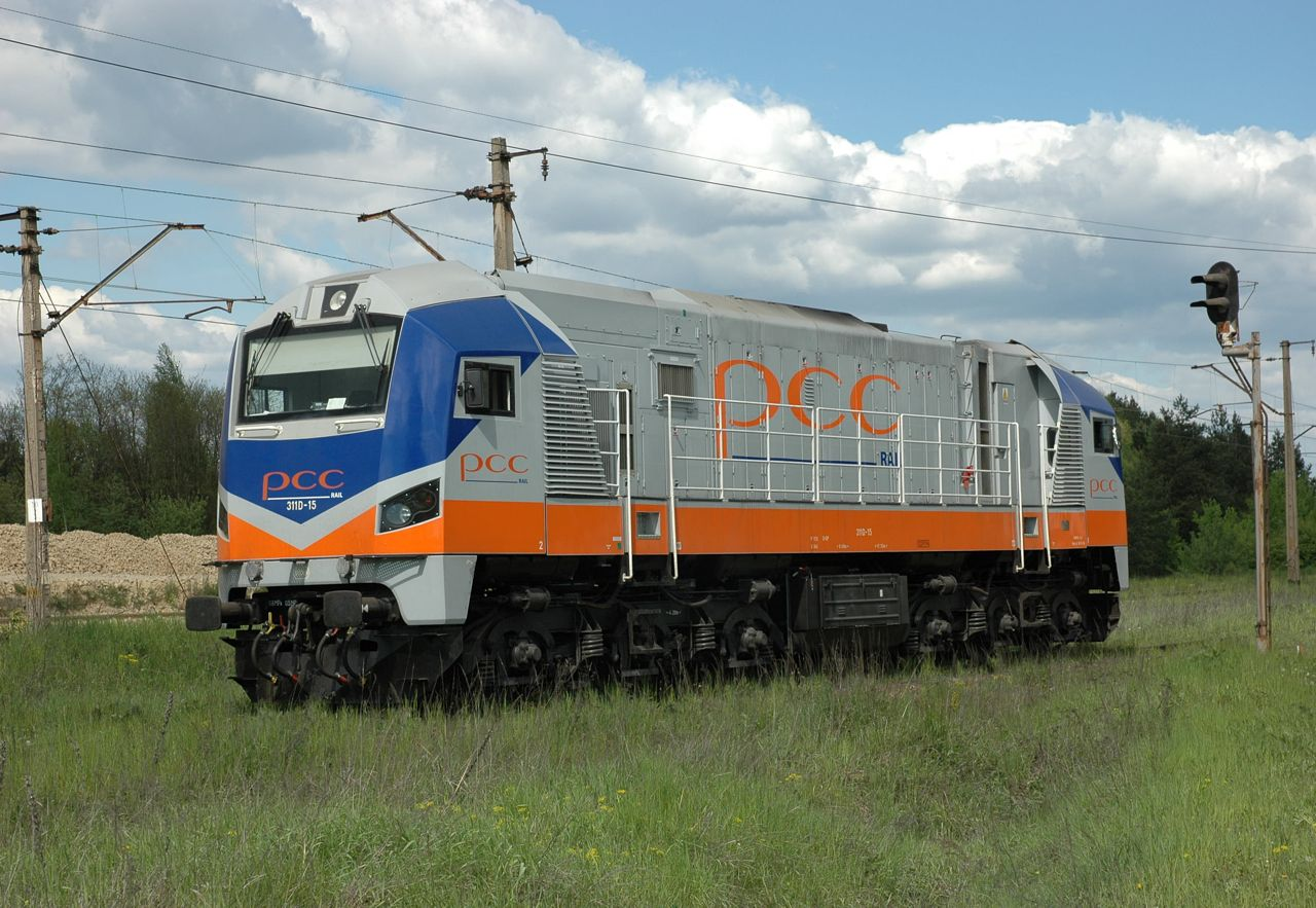 Locomotive 311D-15 of PCC Rail operator, Janina mine, Libiąż, Poland